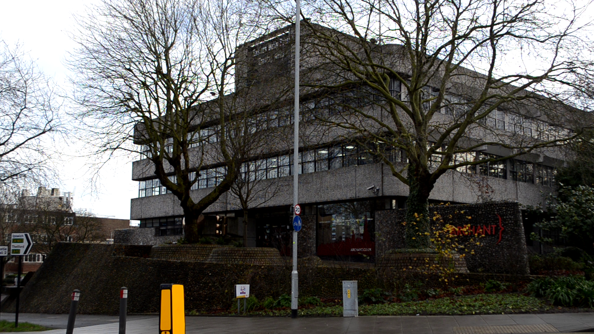 Prospect House on Rouen Road in Norwich, the headquarters of Archant.